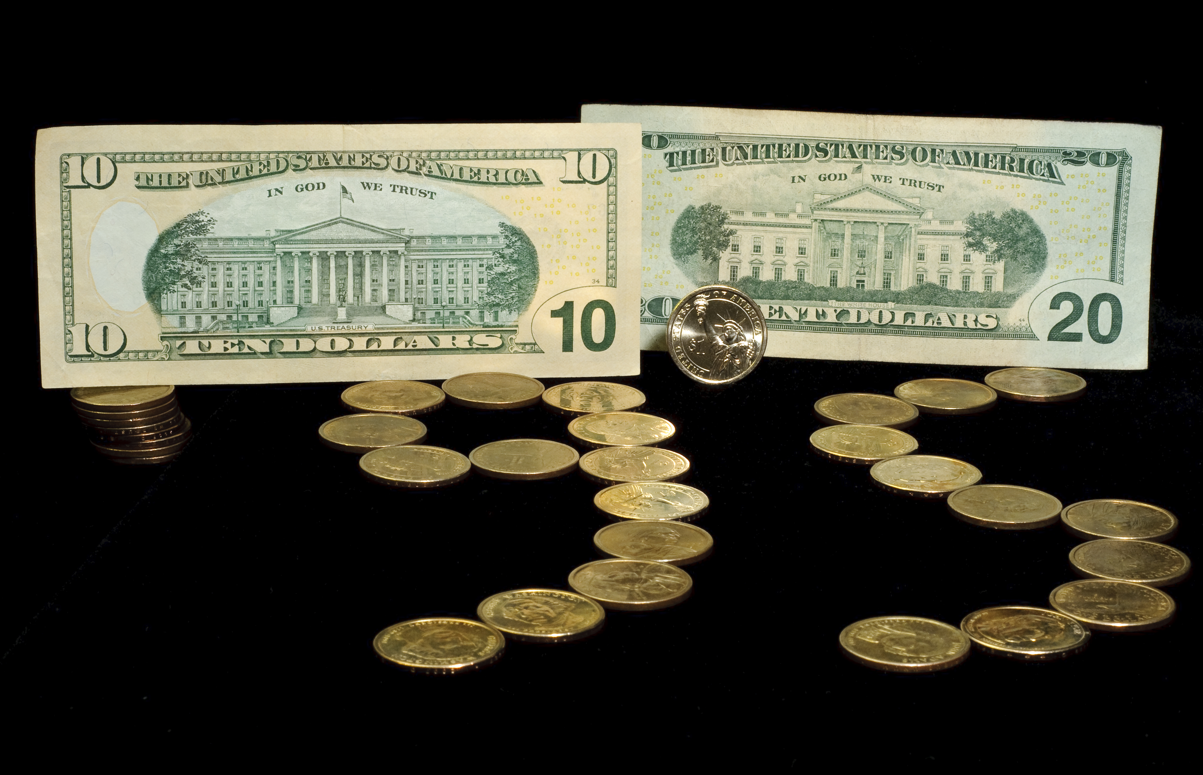 Money trails setup time: 1.5 hours shots taken: 17 no flash used.